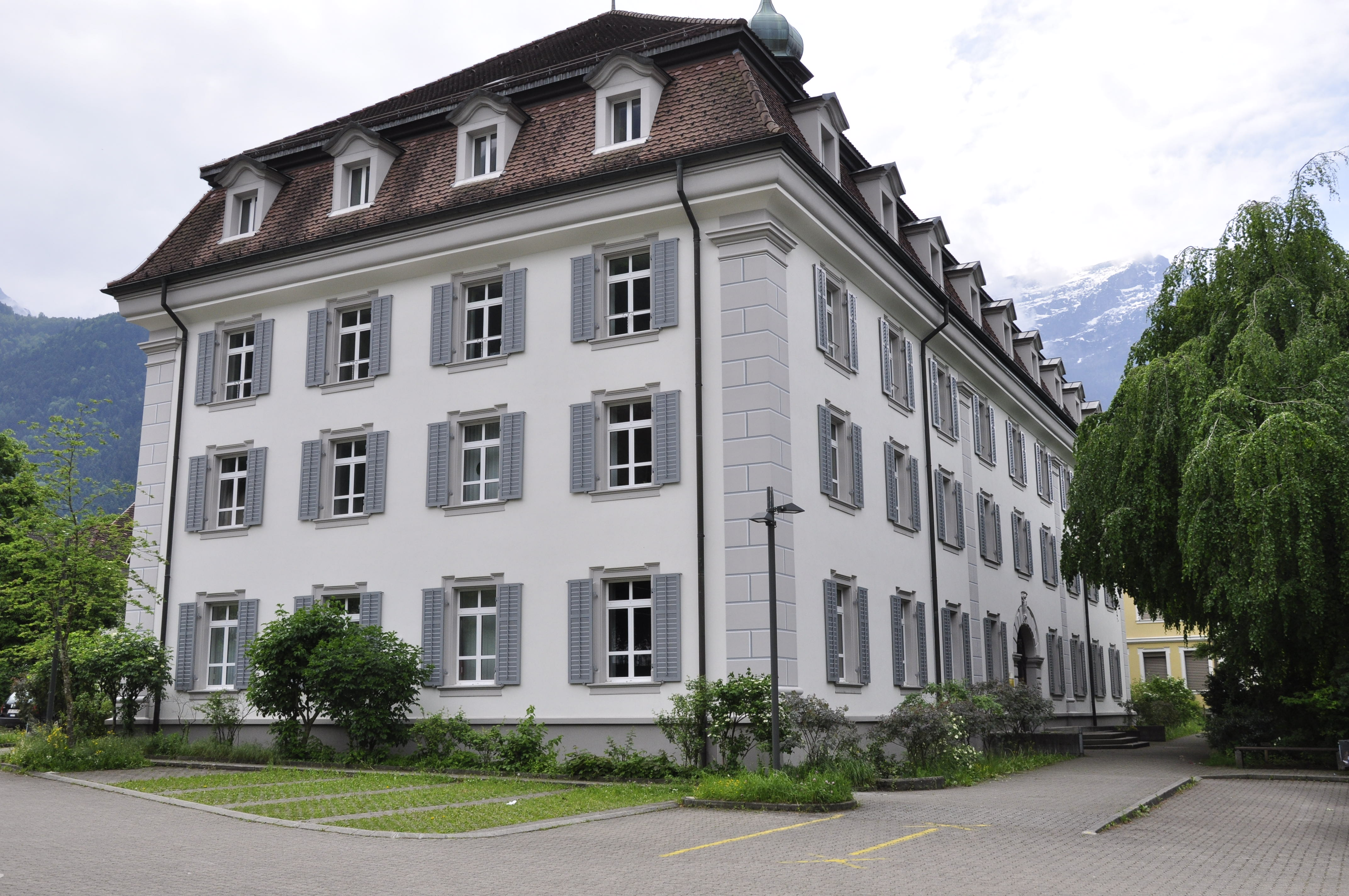 Kollegium St. Karl Borromäus